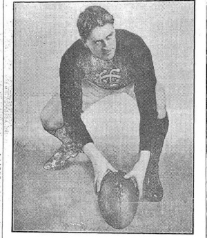 George Bruce from 1903-1913